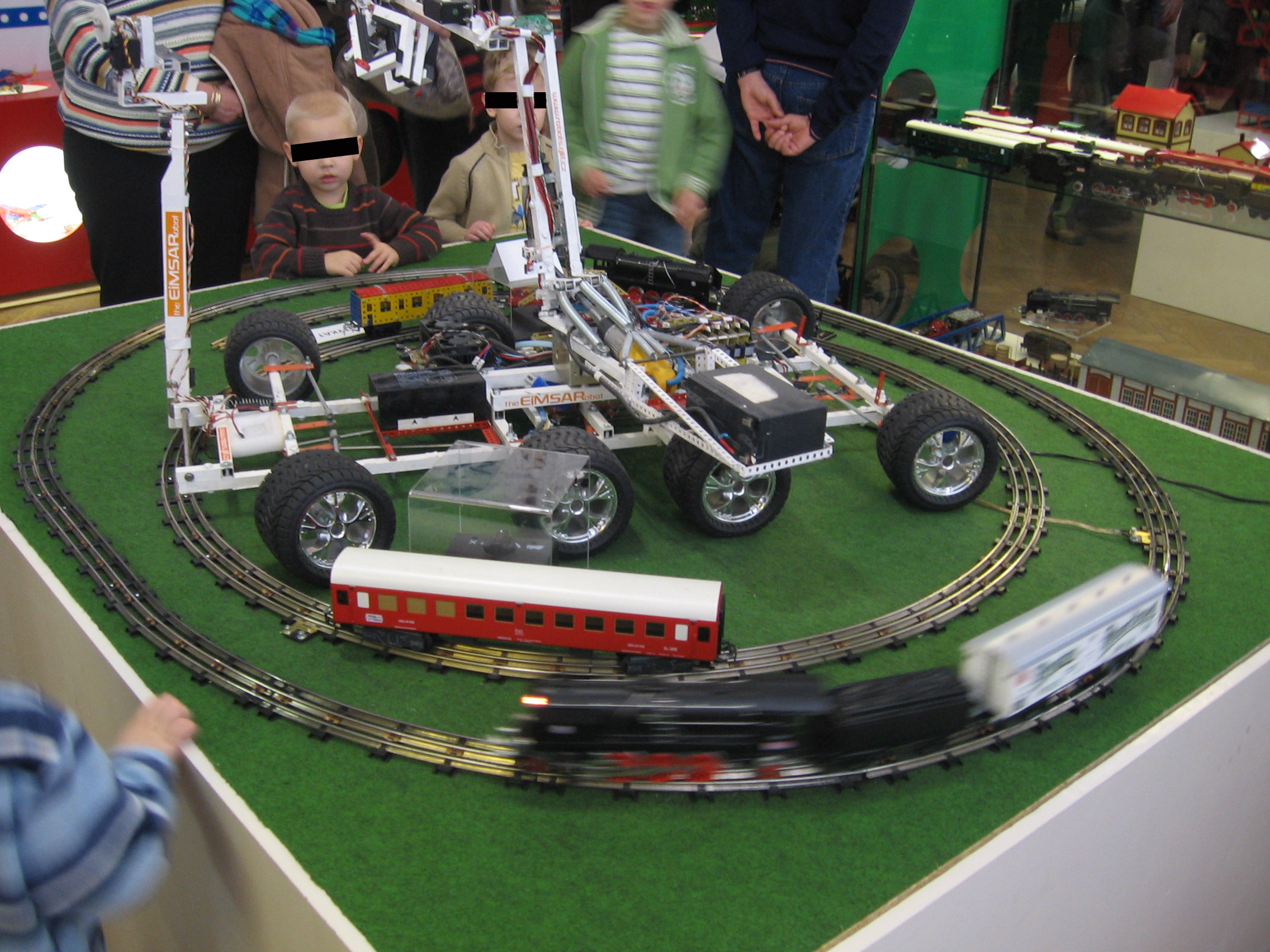 Merkur train 0 scale circulating on the exhibition in Prague Municipal Museum See also File:Pojezd merkur.jpg where the heavy worn after weeks of circulation is seen.